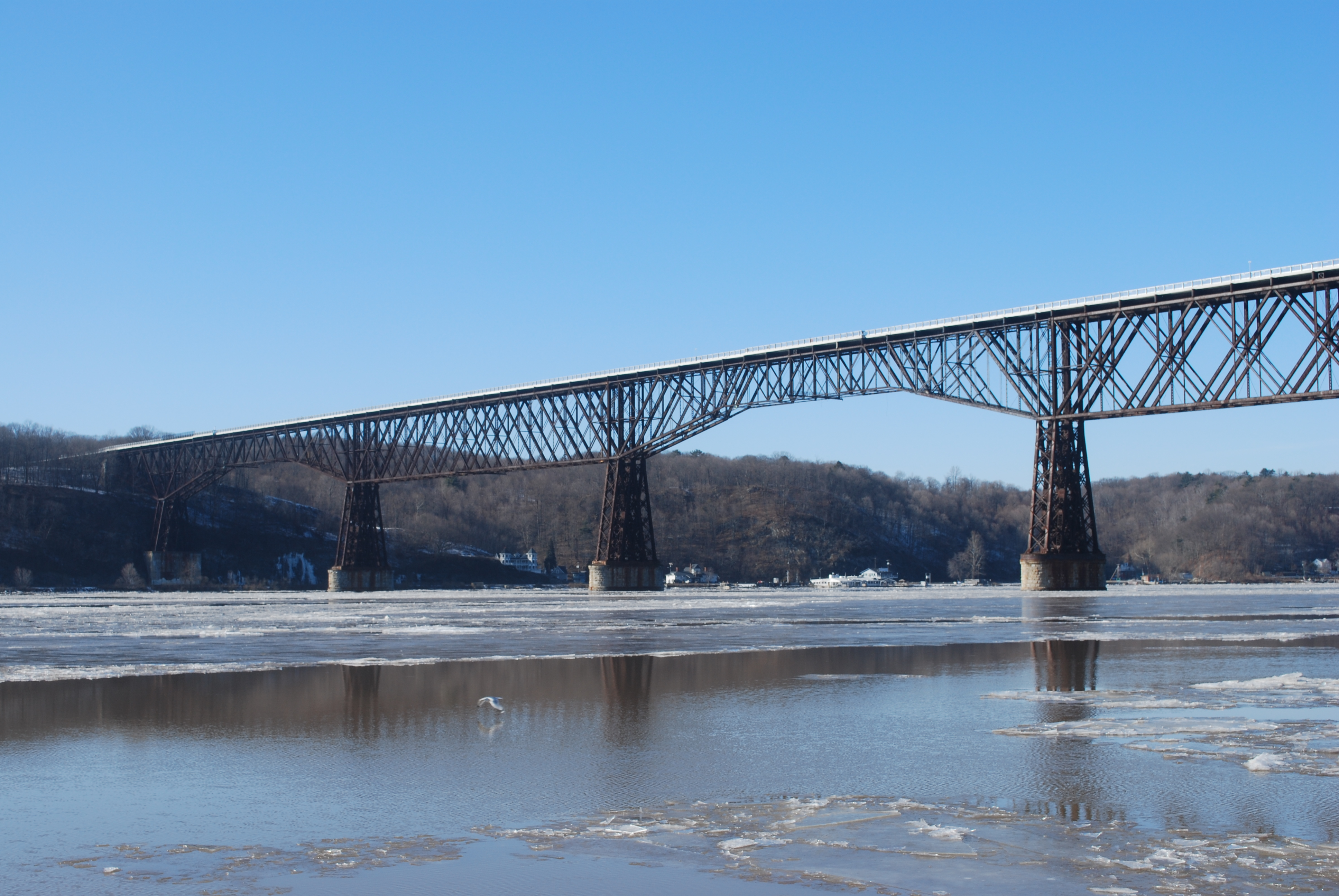 A view of the Hudson River, including the Poughkeepsie Railroad Bridge, from Waryas Park in Poughkeepsie, New York.